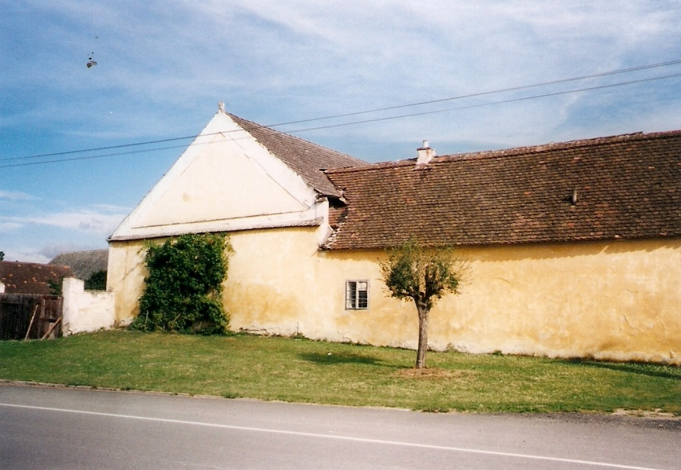 Skály-Budičovice village in Písek district, Czech Republic. Part of the former homestead no. 24